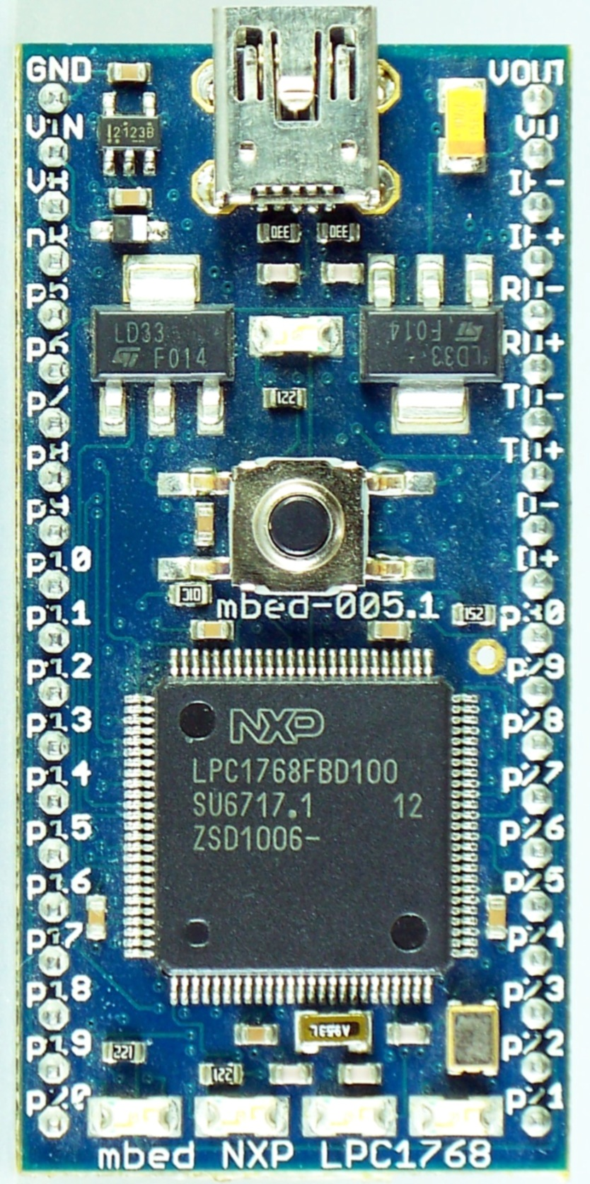 mbed rapid prototyping board with NXP LPC1768 (ARM Cortex-M3) Microcontroller